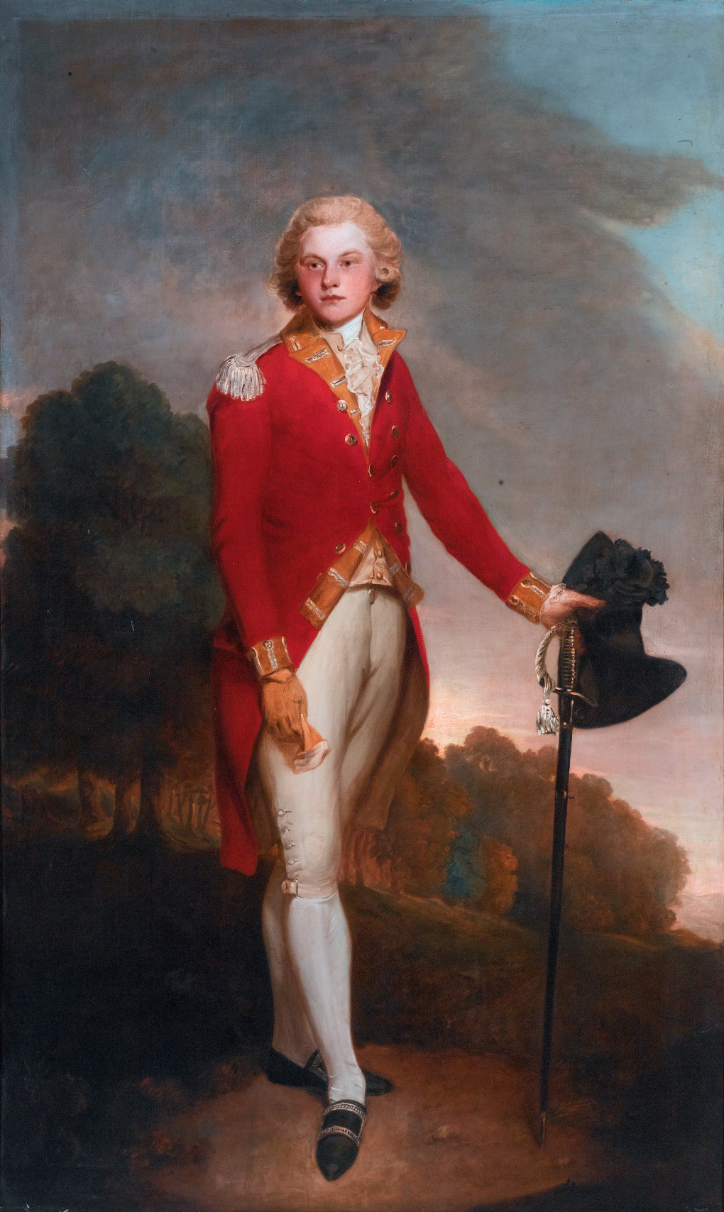 Aubrey, Earl of Burford, later 6th Duke of St. Albans (1765 -1815) oil on canvas 208.9 x 126.4 cm